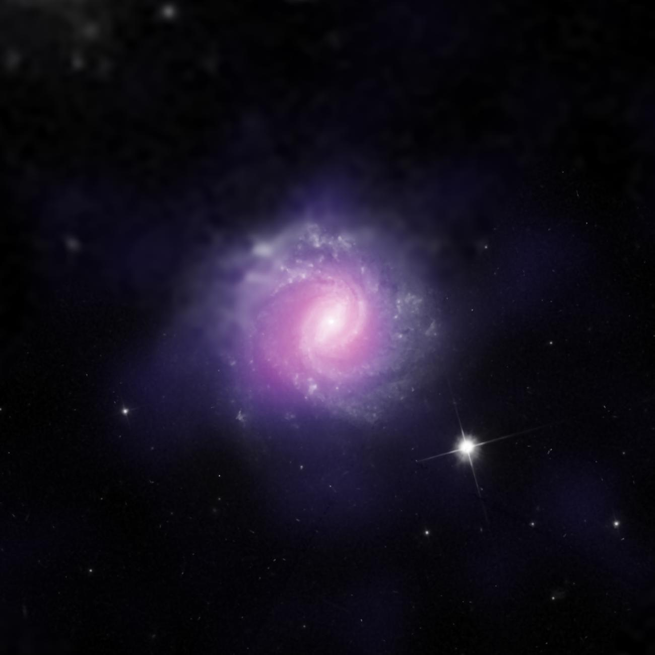 IC 3639, a galaxy with an active galactic nucleus, is seen in this image combining data from the Hubble Space Telescope and the European Southern Observatory. This galaxy contains an example of a supermassive black hole hidden by gas and dust. Researchers analyzed NuSTAR data from this object and compared them with previous observations from NASA's Chandra X-Ray Observatory and the Japanese-led Suzaku satellite. The findings from NuSTAR, which is more sensitive to higher energy X-rays than these observatories, confirm the nature of IC 3639 as an active galactic nucleus that is heavily obscured, and intrinsically much brighter than observed. NuSTAR is a Small Explorer mission led by Caltech and managed by JPL for NASA's Science Mission Directorate in Washington. NuSTAR was developed in partnership with the Danish Technical University and the Italian Space Agency (ASI). The spacecraft was built by Orbital Sciences Corp., Dulles, Virginia. NuSTAR's mission operations center is at UC Berkeley, and the official data archive is at NASA's High Energy Astrophysics Science Archive Research Center. ASI provides the mission's ground station and a mirror archive. JPL is managed by Caltech for NASA. For more information, visit and